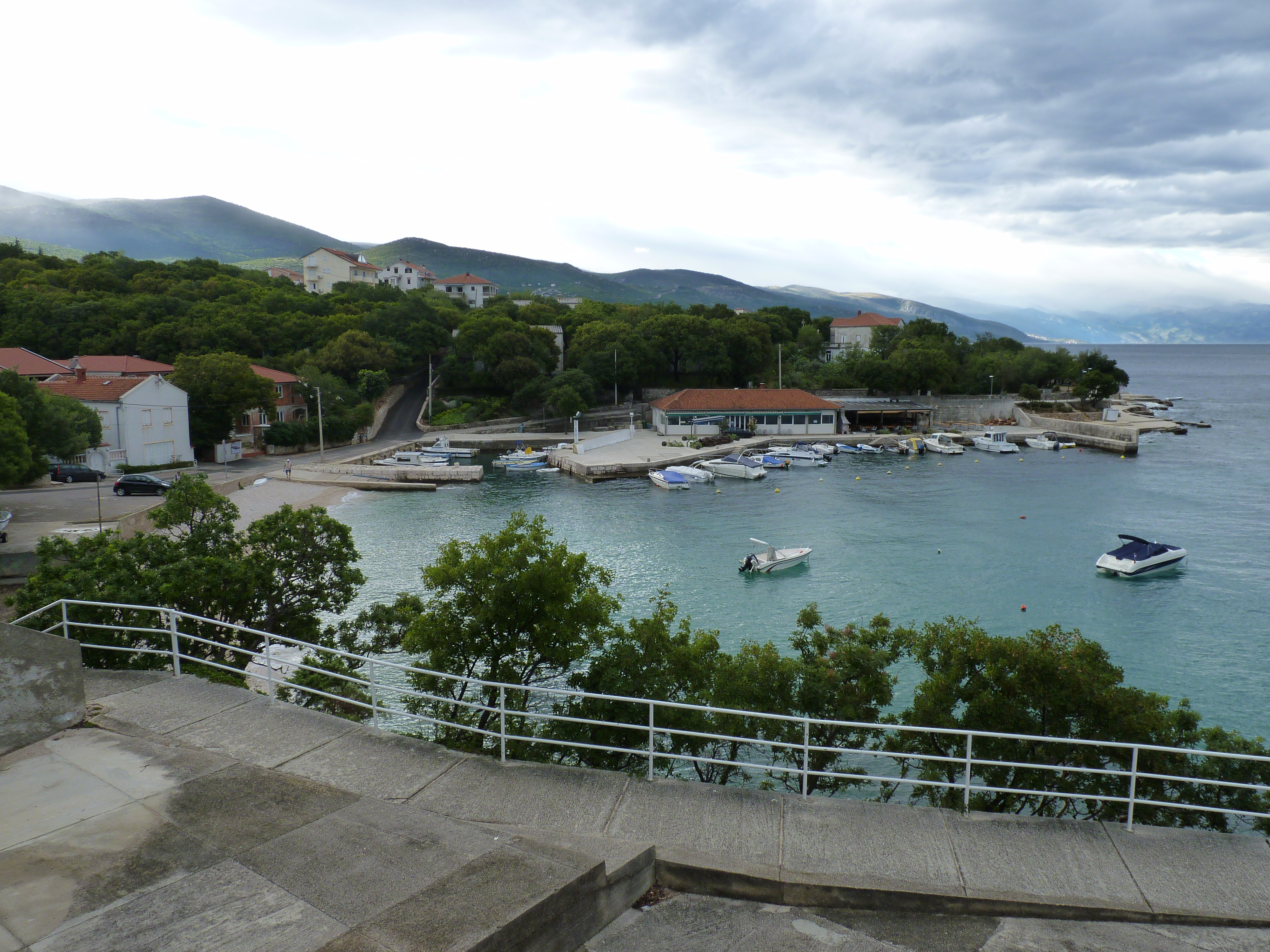 Povile, Primorje-Gorski Kotar County, Croatia